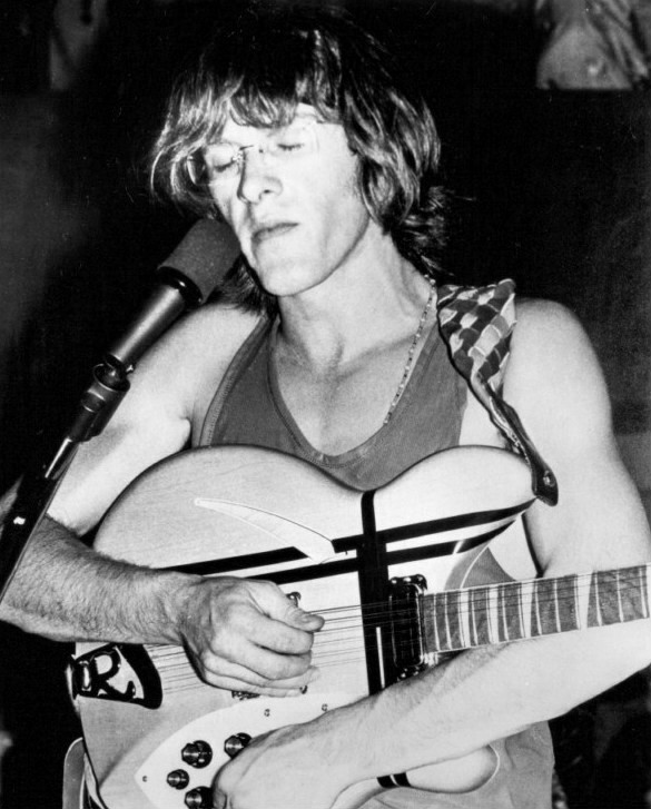 Publicity photo of Paul Kantner of Jefferson Airplane.